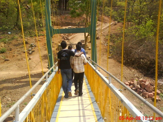 Hanging Bridge, Laknavaram Lake, near Warangal, Telangana, India